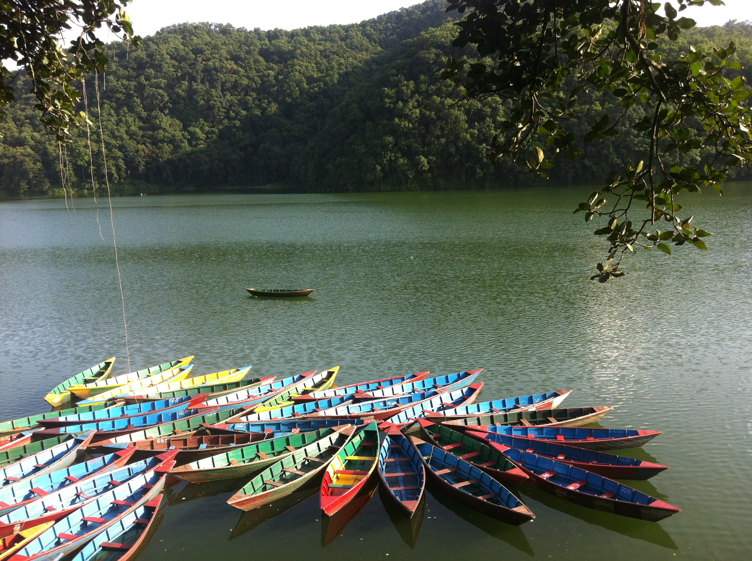 Phewa lake in Pokhara. Boating at phewa lake is one of the popular activities one does who go for visit.